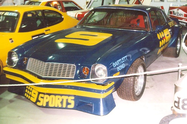 Kevin Bartlett's Bathurst 1000 pole position Chevrolet Camaro at the Bathurst museum